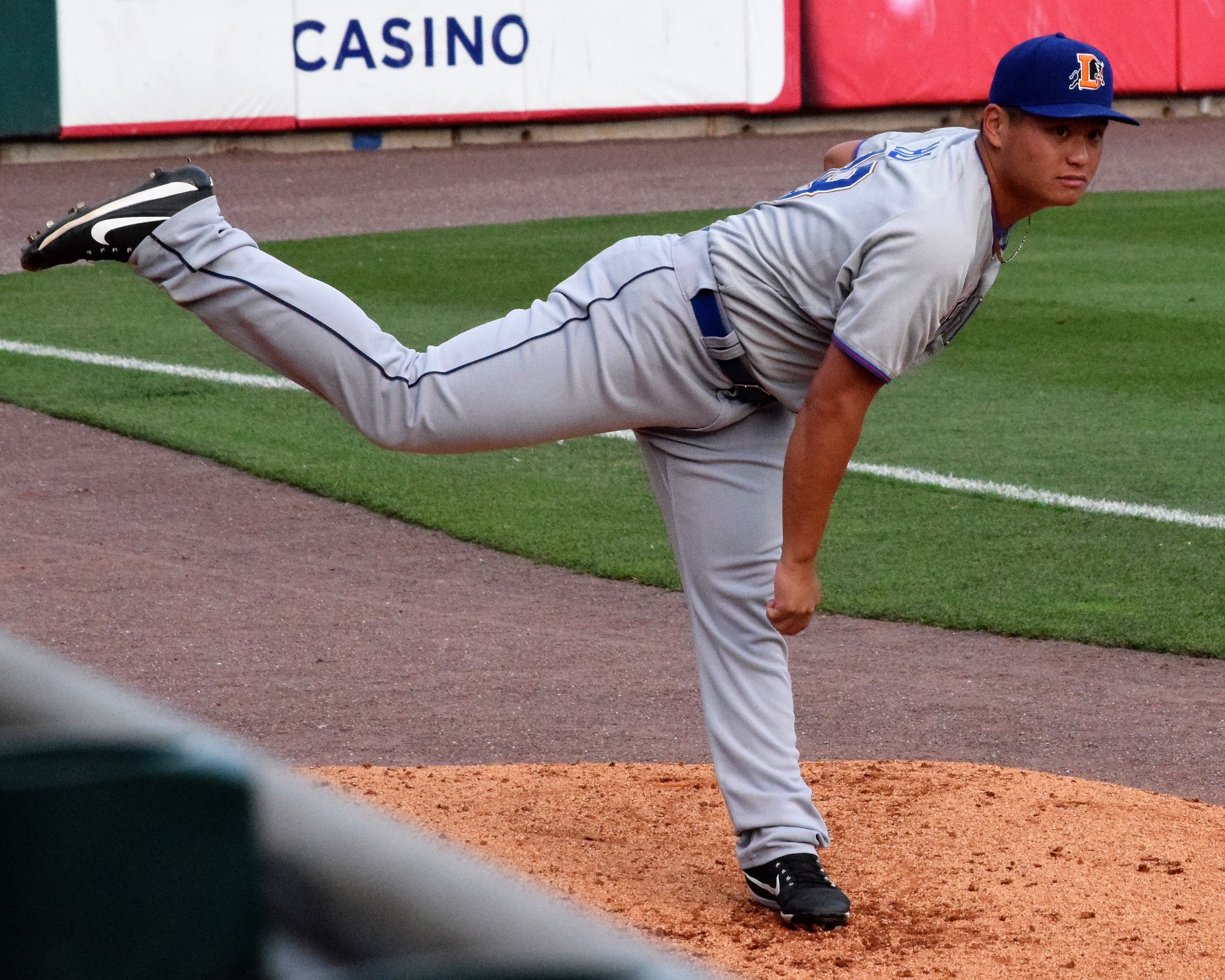 Chih-Wei Hu